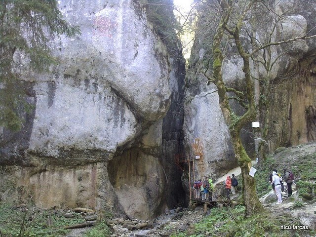 Şapte Scări Canyon, Baiului Mountains, Braşov, Romania